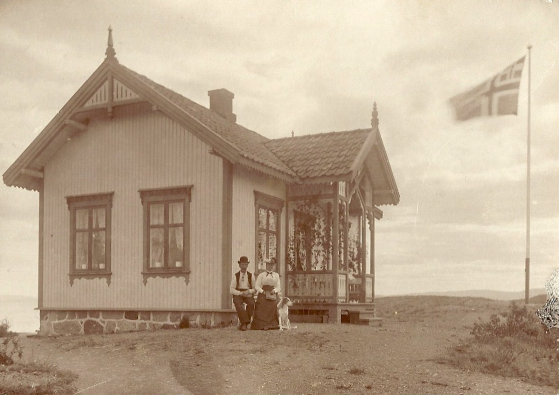 Indre Vassholmen island, Indre Oslofjord, Norway, shortly before 1900. Shows an old couple wit a dog in front of their house with the common Norwegian-Swedish flag for the union (unionsflagget, kalt "sildesalaten") used between 1844-1899. Can't see the photorafetr's name, but Mr. Edvin Bauthler (1859-1934), Oslo, has shot other pictures from the island around the same time.